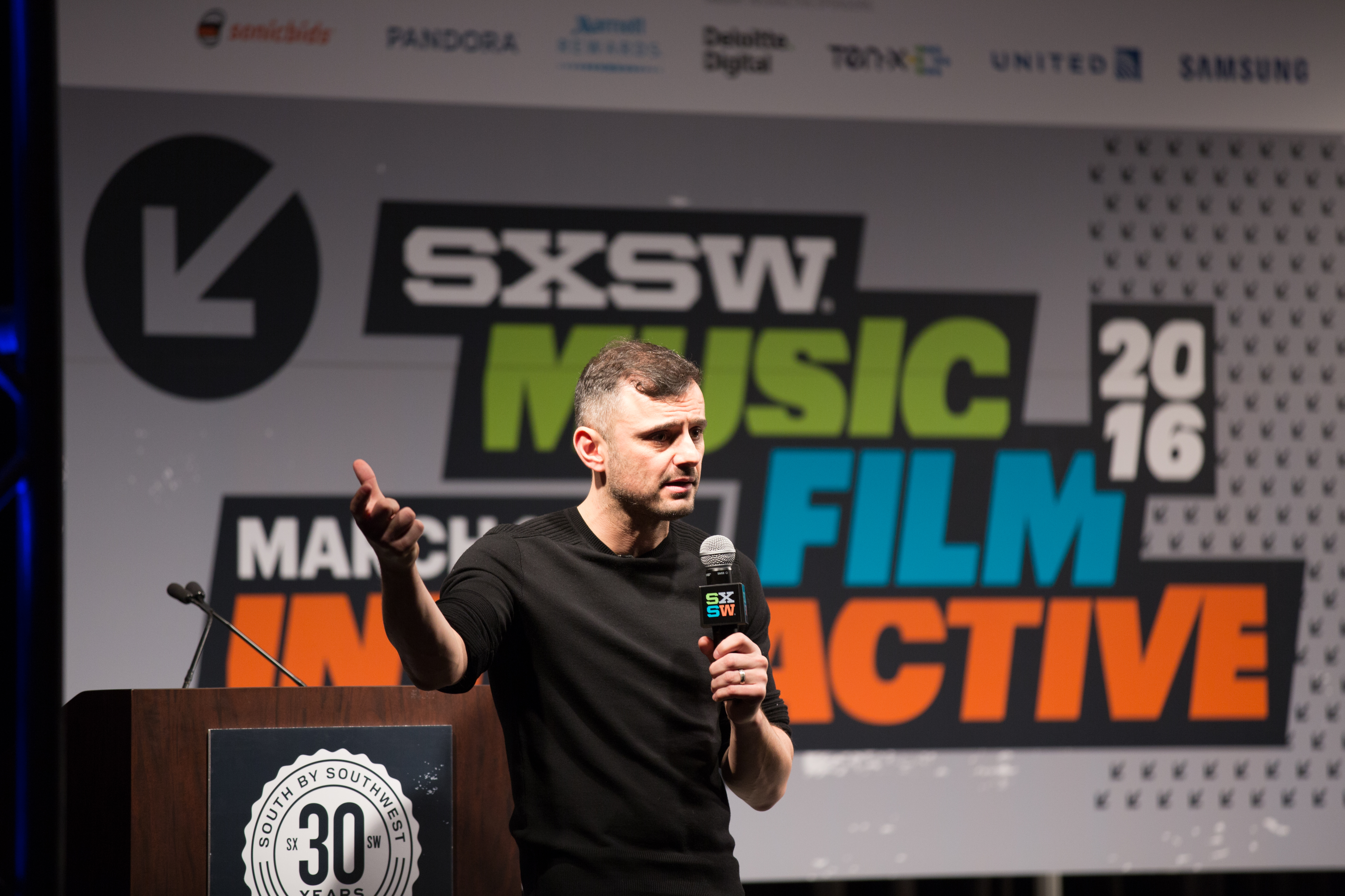 Gary Vaynerchuk.